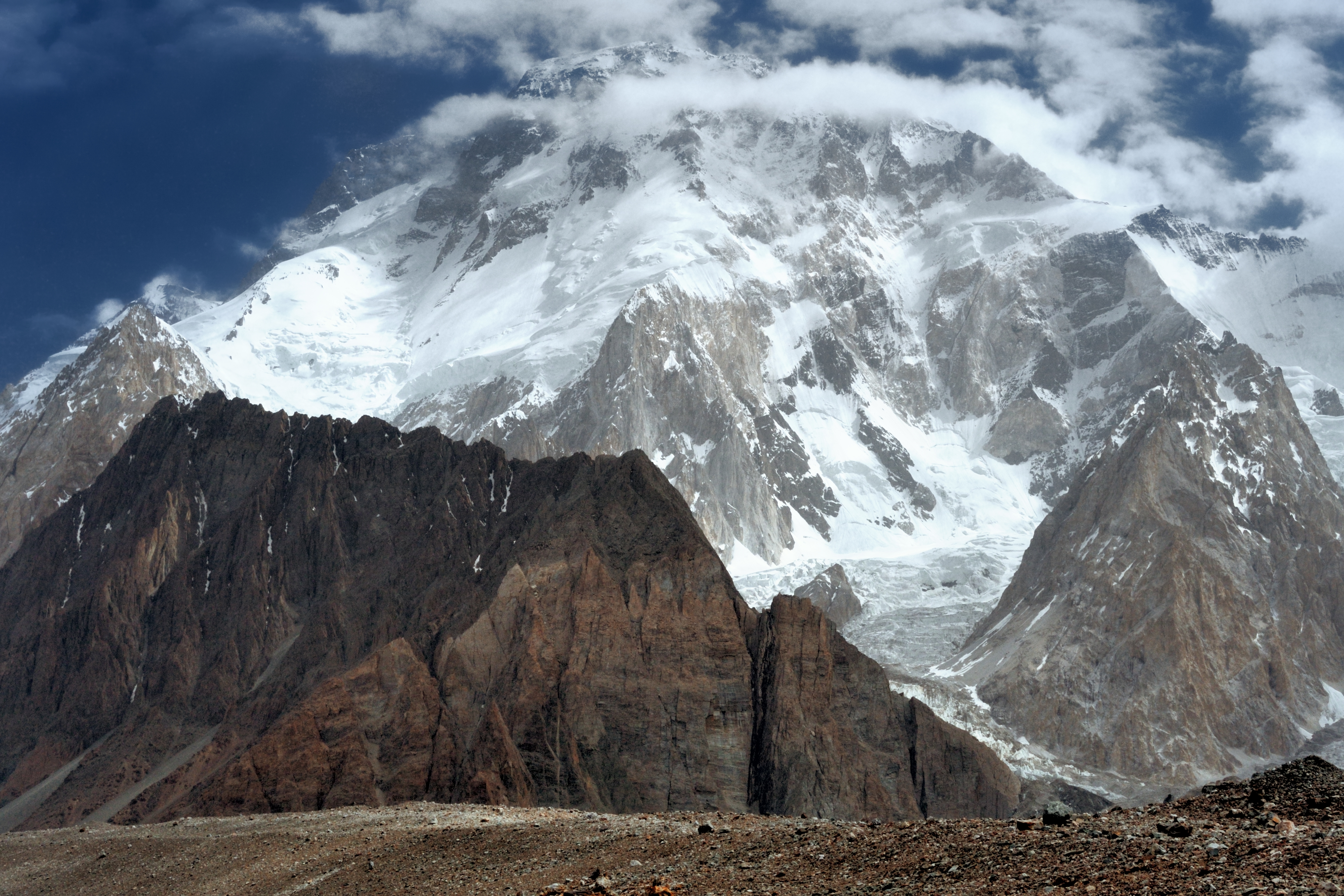 Broad Peak (also known as Falchan Kangri) from Concordia